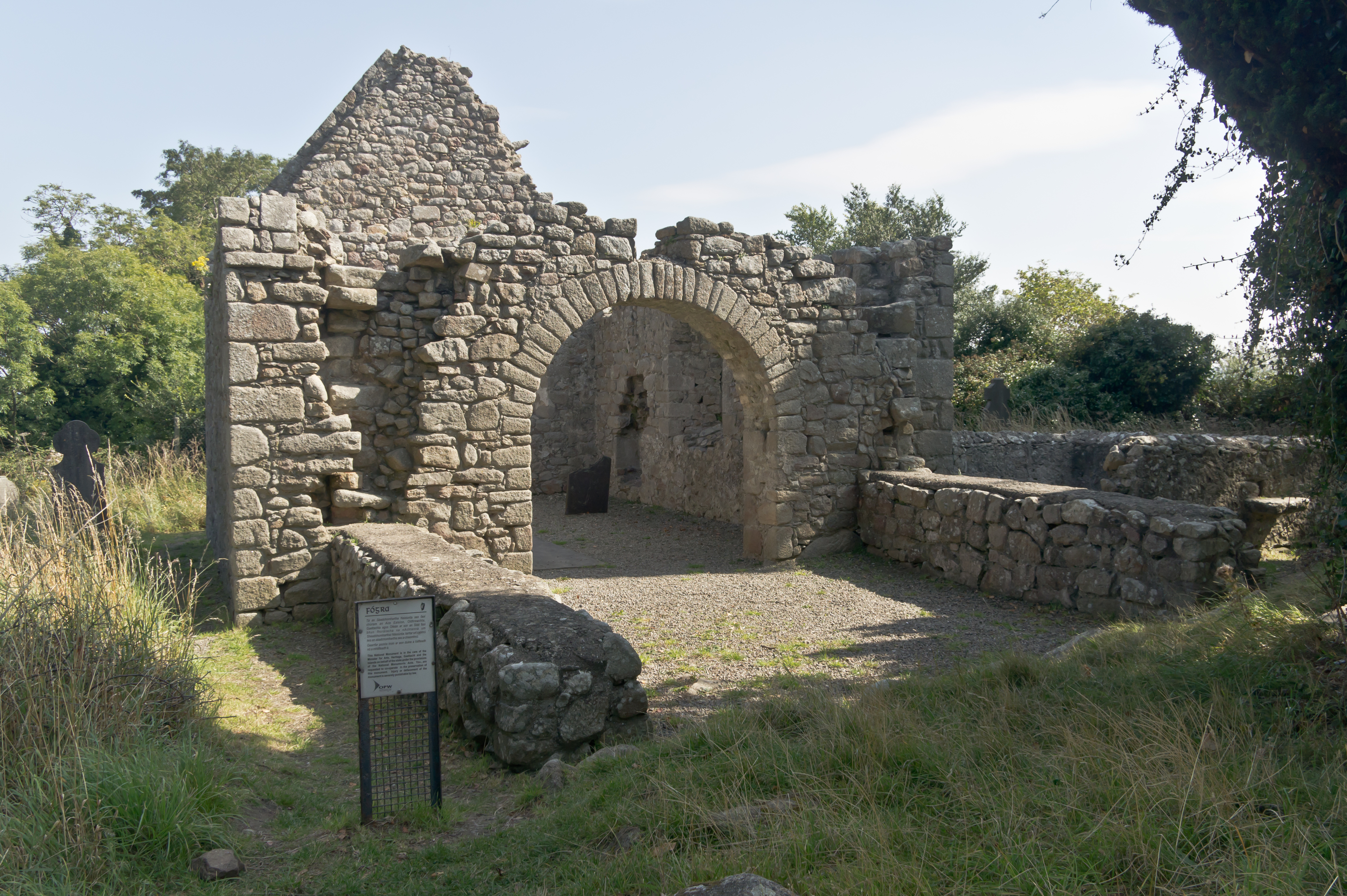 A Walk In The Country - Laughanstown, Tully Church And Burial Ground